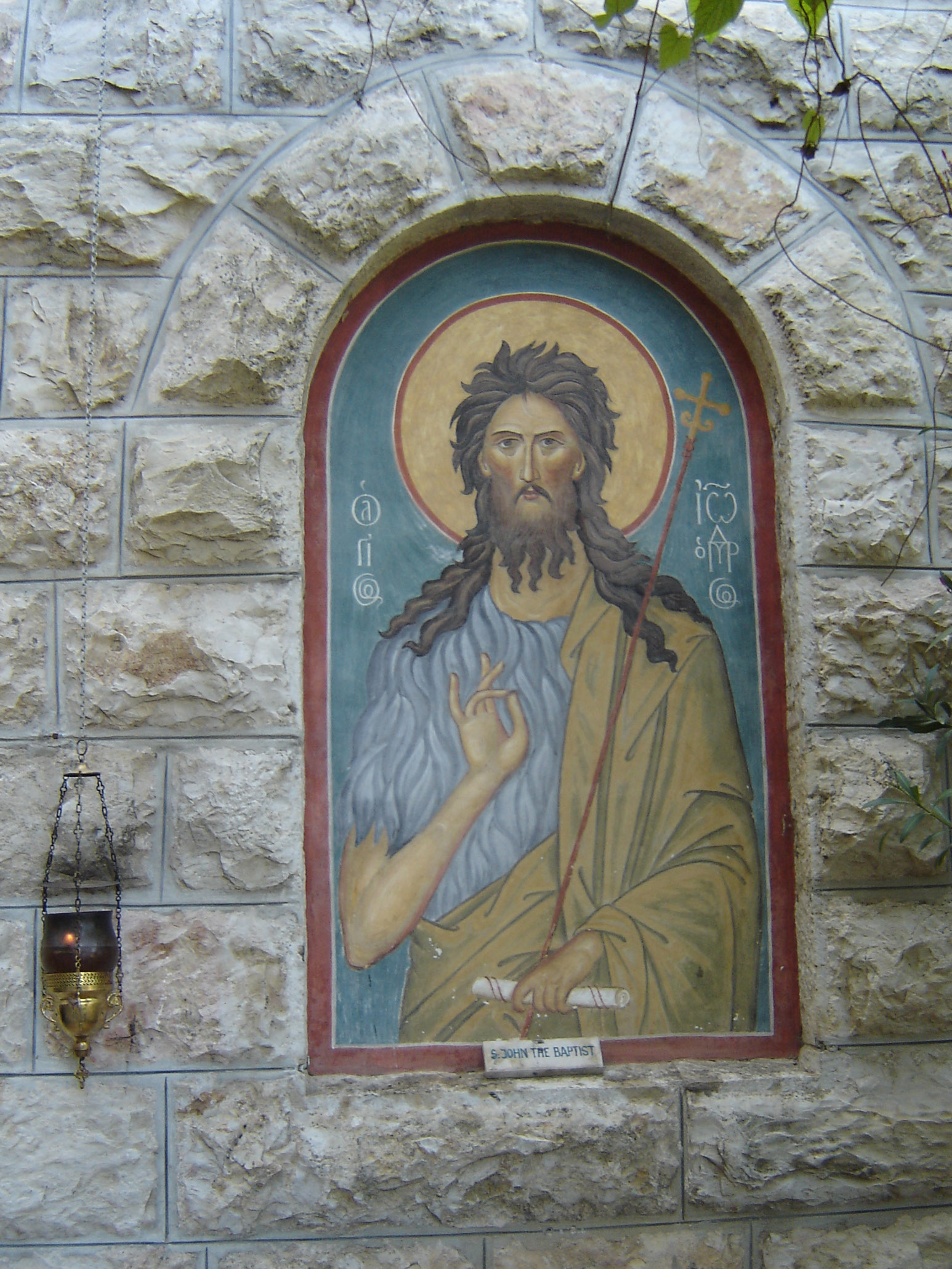 John_the_Baptist John the baptist "in the desert" Monetary Even Sapir (near Jerusalem), Israel